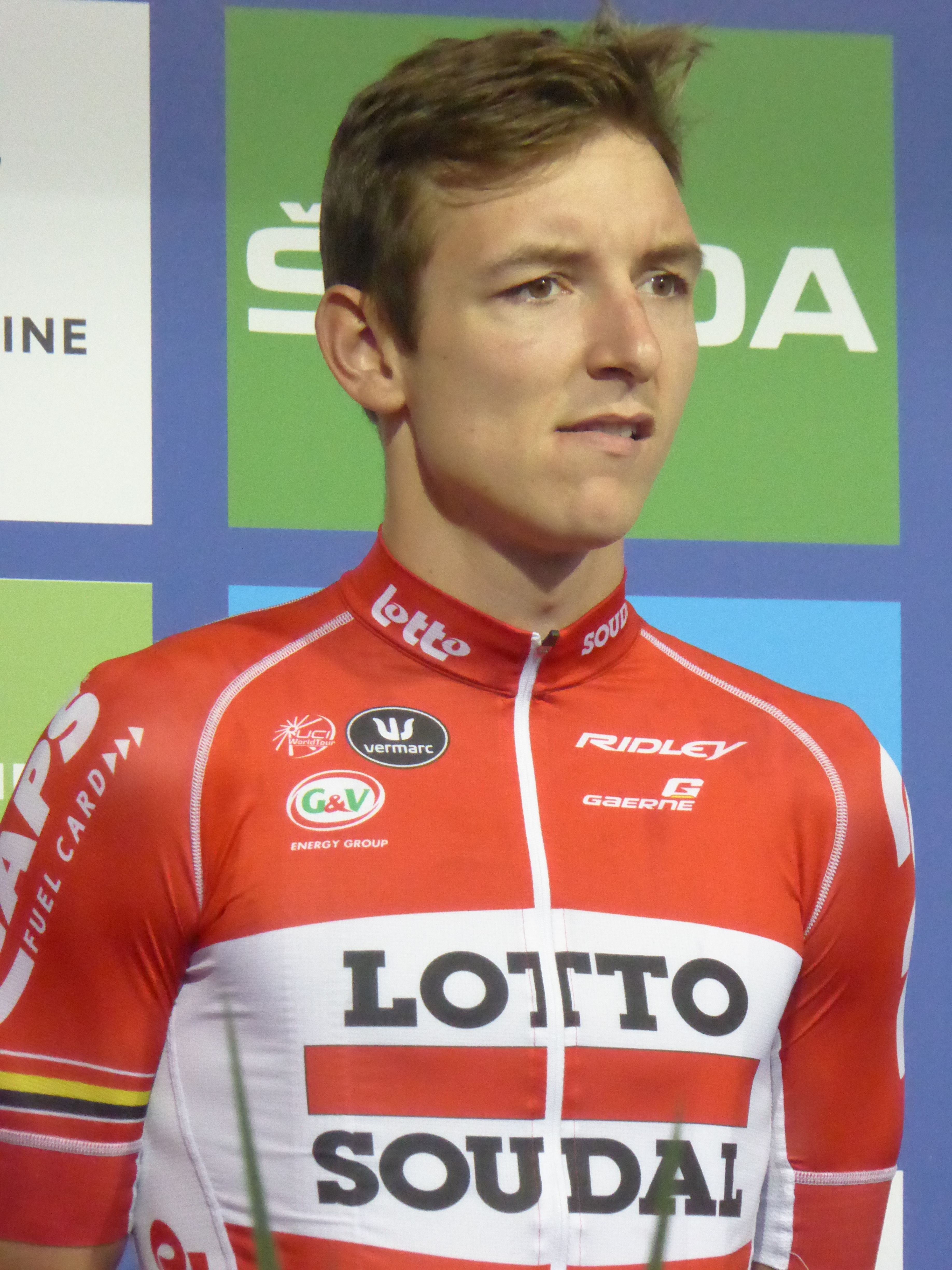 Jasper De Buyst (Lotto-Soudal), pictured at the 2016 Tour of Britain team presentation in Glasgow on 3 September 2016.